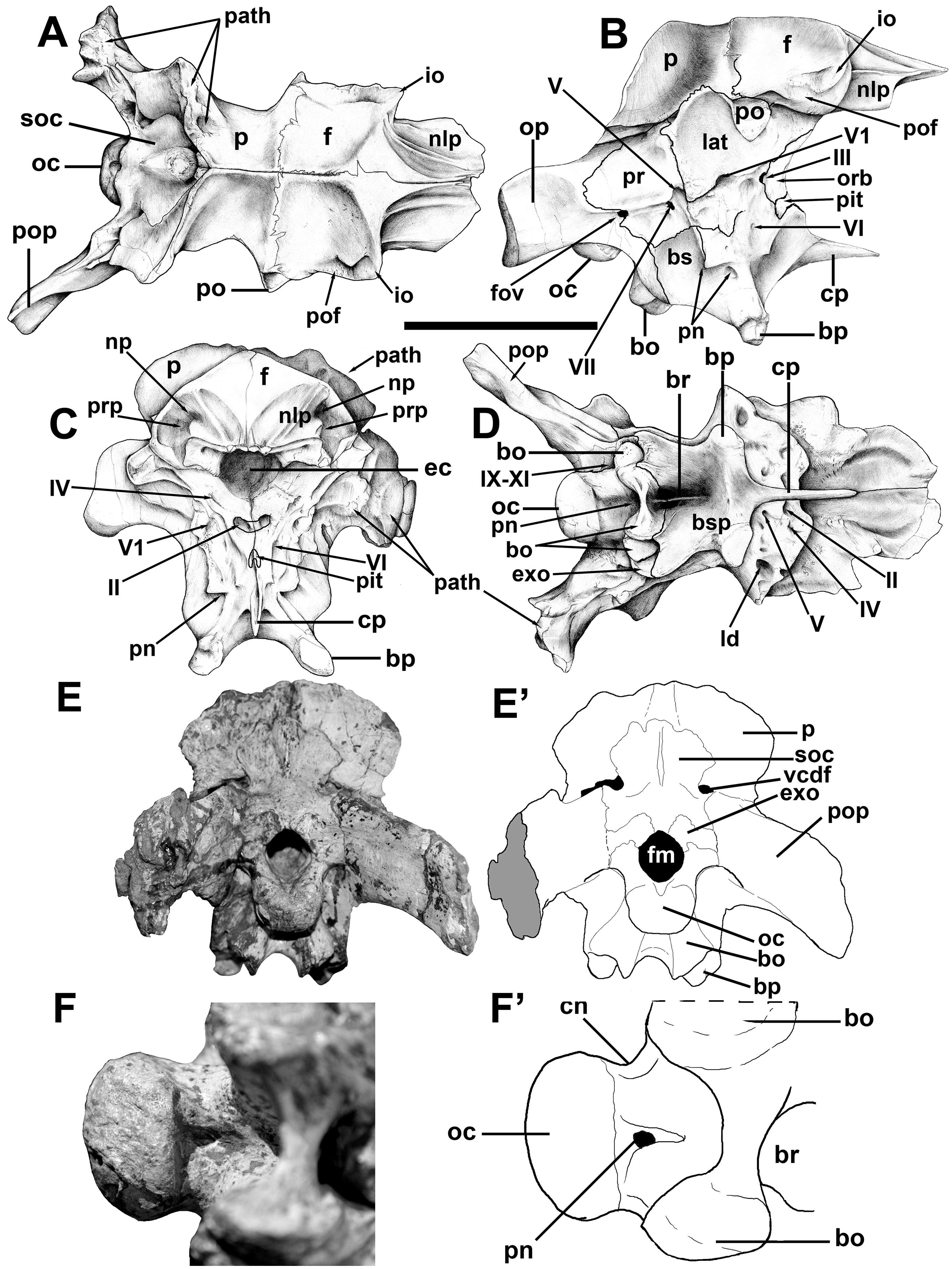 Braincase of Murusraptor barrosaensis, holotype, MCF-PVPH-411. Braincase in dorsal (A), lateral (B), anterior (C), ventral (D) and posterior (E,E’) views; occipital condyle in ventral view, photography (F) and line drawing (F’). Abbreviations: bo, basioccipital; bp, basipterygoid process; bs, basisphenoid; bsp, basipterygoid; br, basisphenoidal recess; cn, condylar neck; cp, cultriform process; ec, endocranial cavity; exo, exoccipital-opisthotic; f, frontal; fm, foramen magnum; fov, fenestra ovalis; io, interorbital slot between prefrontal/lacrimal and postorbital; n/p, nasal/prefrontal contact; lat, laterosphenoid; np, nasal pit; oc, occipital condyle; op, opistotic; orb, orbitosphenoid; p, parietal; path, pathology; pit, pituitary fossa; pn, pneumatopore; po, postorbital contact; pof, postorbital suture of the frontal; pop, paraoccipital process; pr, prootic; prp, prefrontal pit; soc, supraoccipital; vcdf, vena capitis dorsalis foramen; II, second cranial nerve exit; III, third cranial nerve exit; V, trigeminal (fifth cranial nerve) exit; V1, ophthalmic branch of the trigeminal exit; VI, sixth cranial nerve exit; IX-XI, exit for ninth to eleventh cranial nerves. Scale bar: 10 cm.